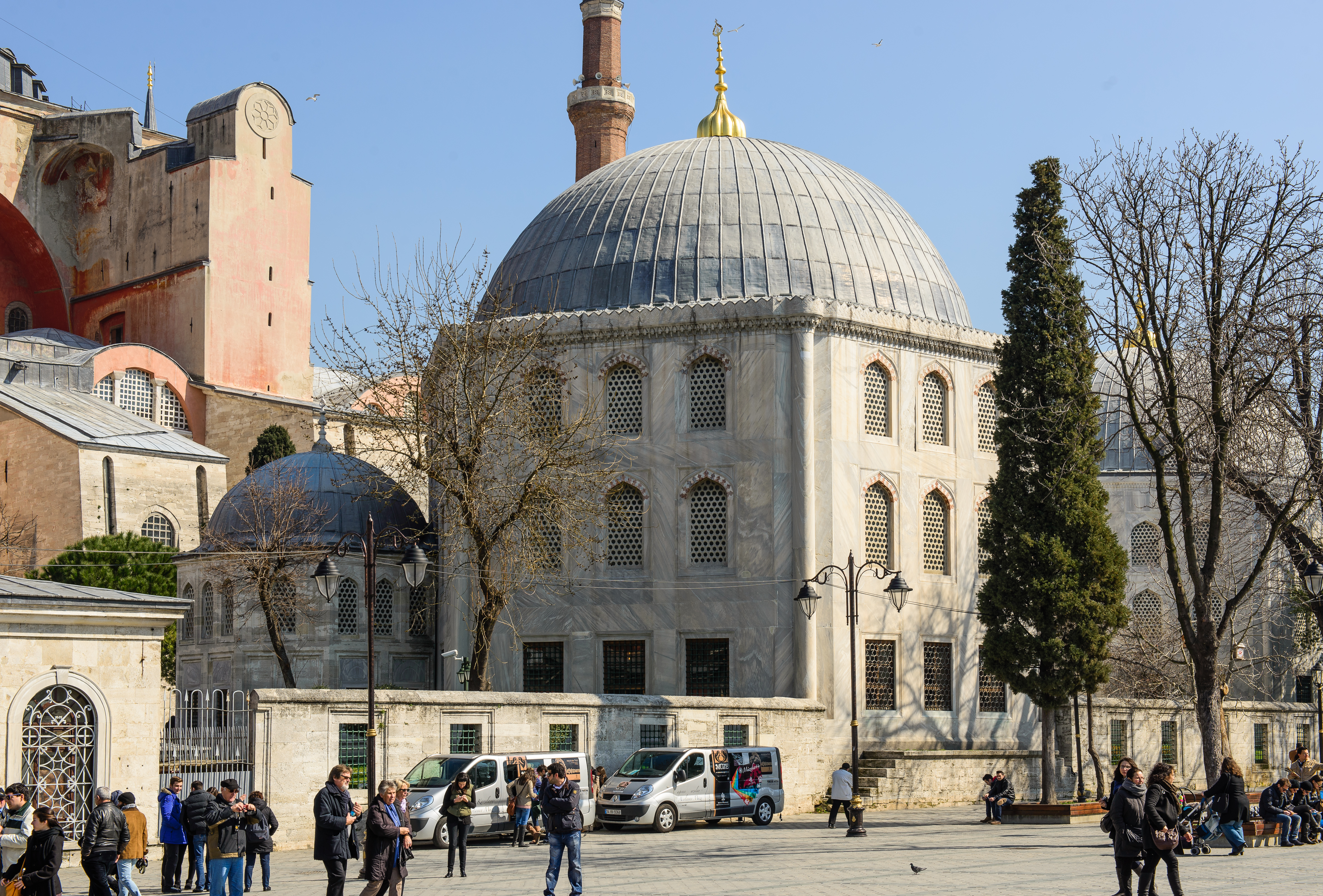 Tomb of Sultan Murad III outside Hagia Sophia, Istanbul. Built 1599. Architects: Davud Agha and his assistant Dalgıç Ahmet Agha.